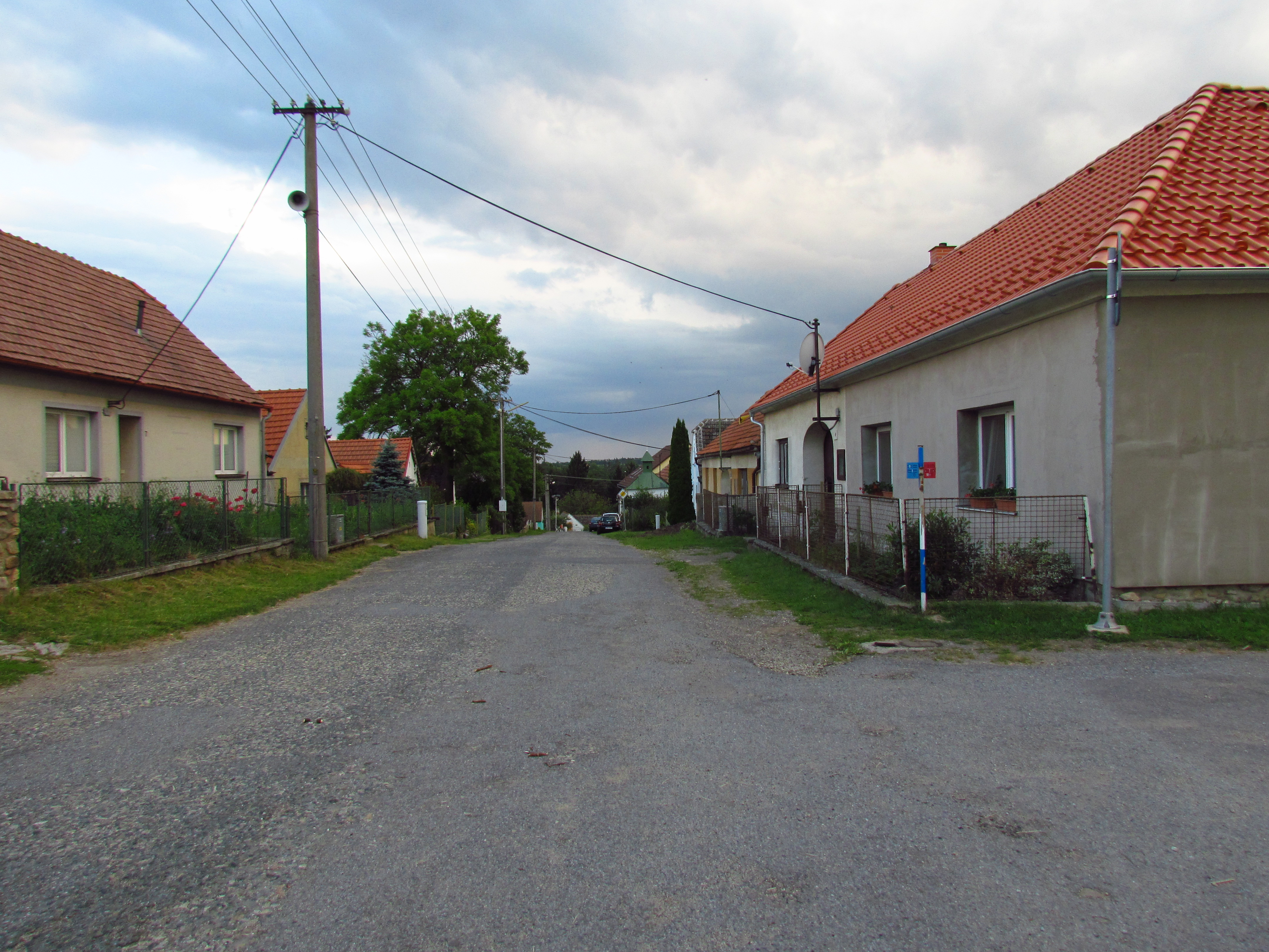 Center of Pulkov, Třebíč District.